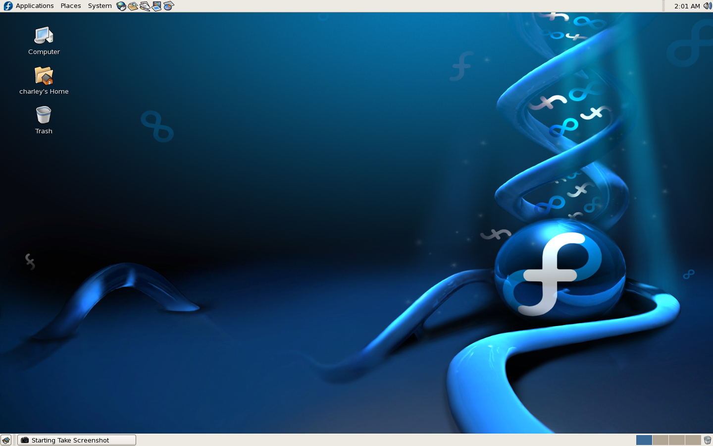 Fedora Core 6 Theme